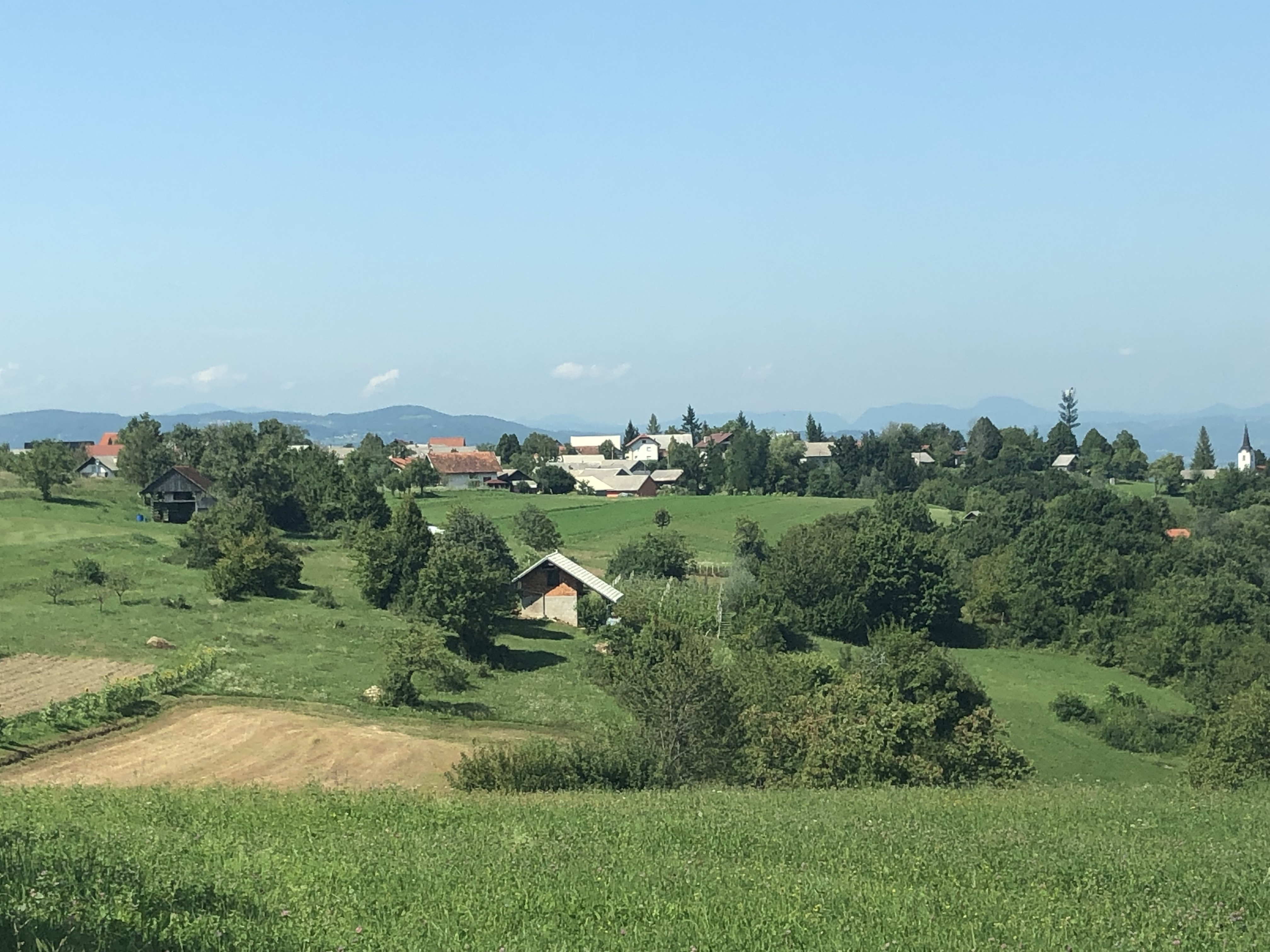 Panorama of Slovenian settlement Zajčji Vrh pri Stopičah